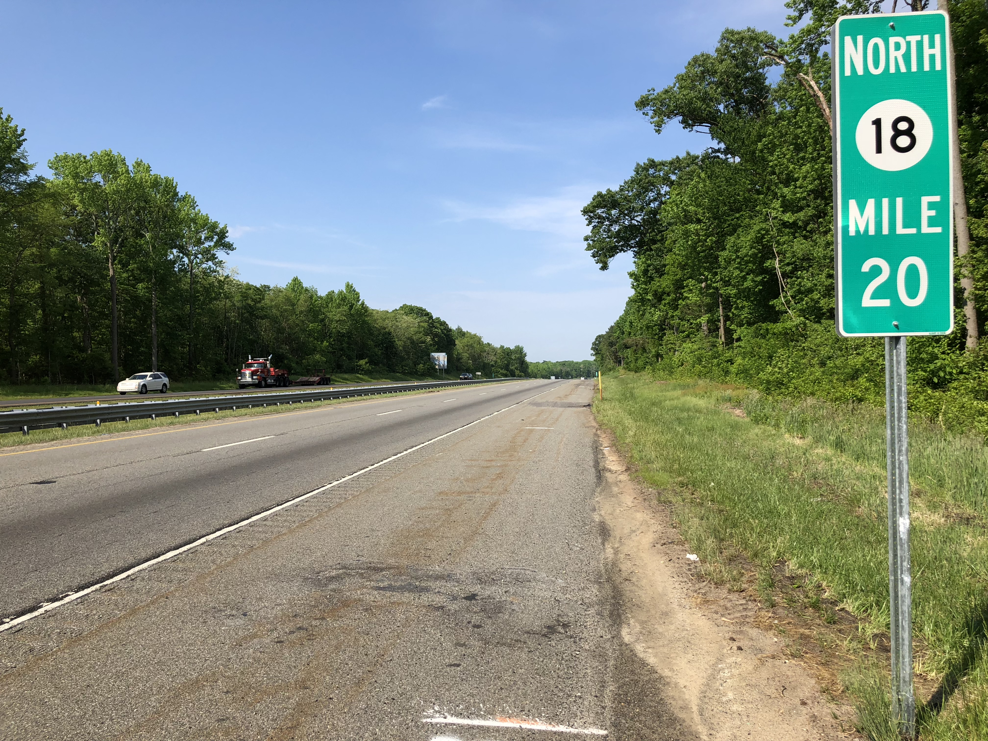 View north along New Jersey State Route 18 between Exit 19 and Exit 22 in Colts Neck Township, Monmouth County, New Jersey